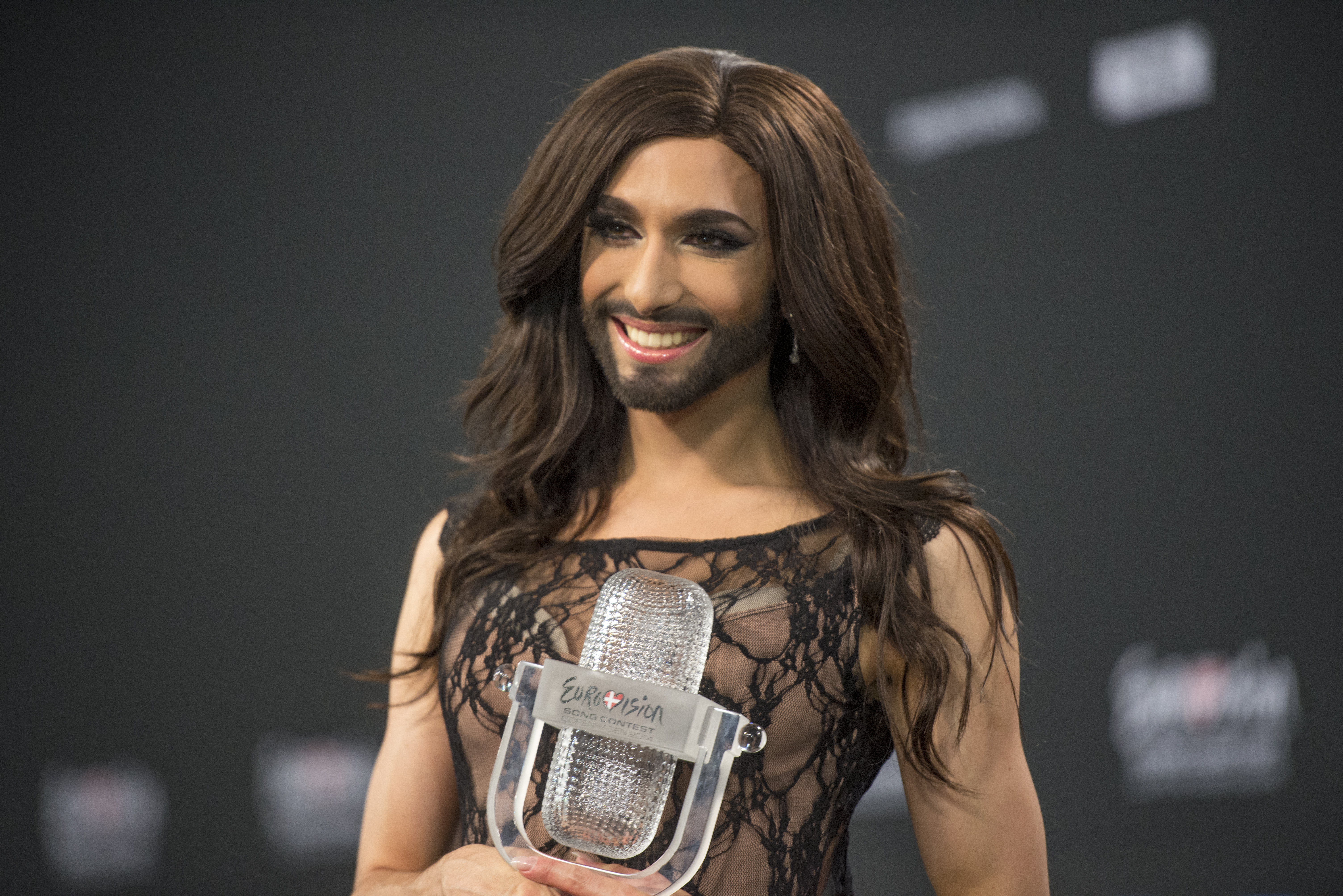 Conchita Wurst at the winners press conference, right after winning the Eurovision Song Contest 2014 Copenhagen. (Help translate this text)